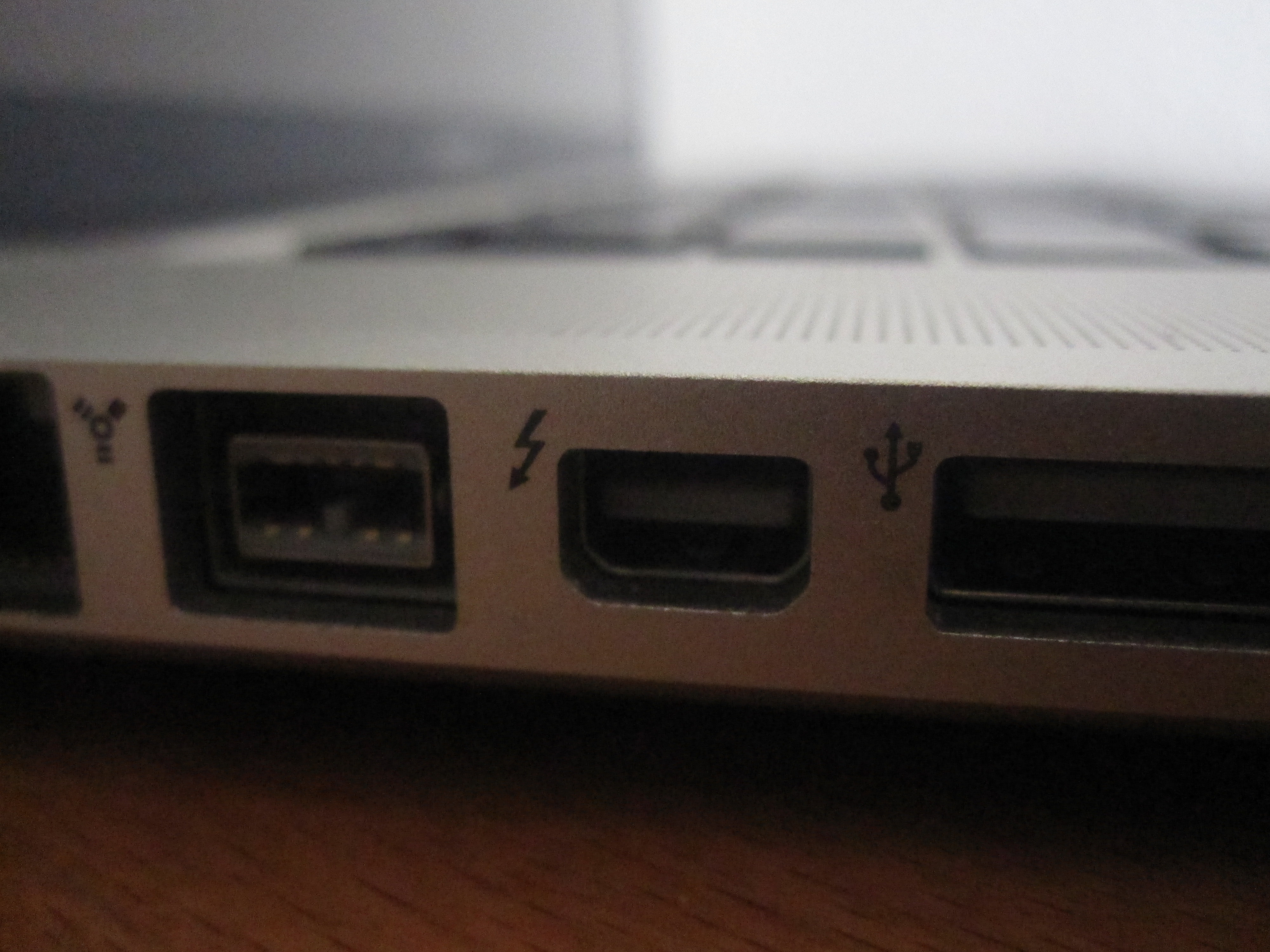 MacBook Pro 2011 : Thunderbolt Port